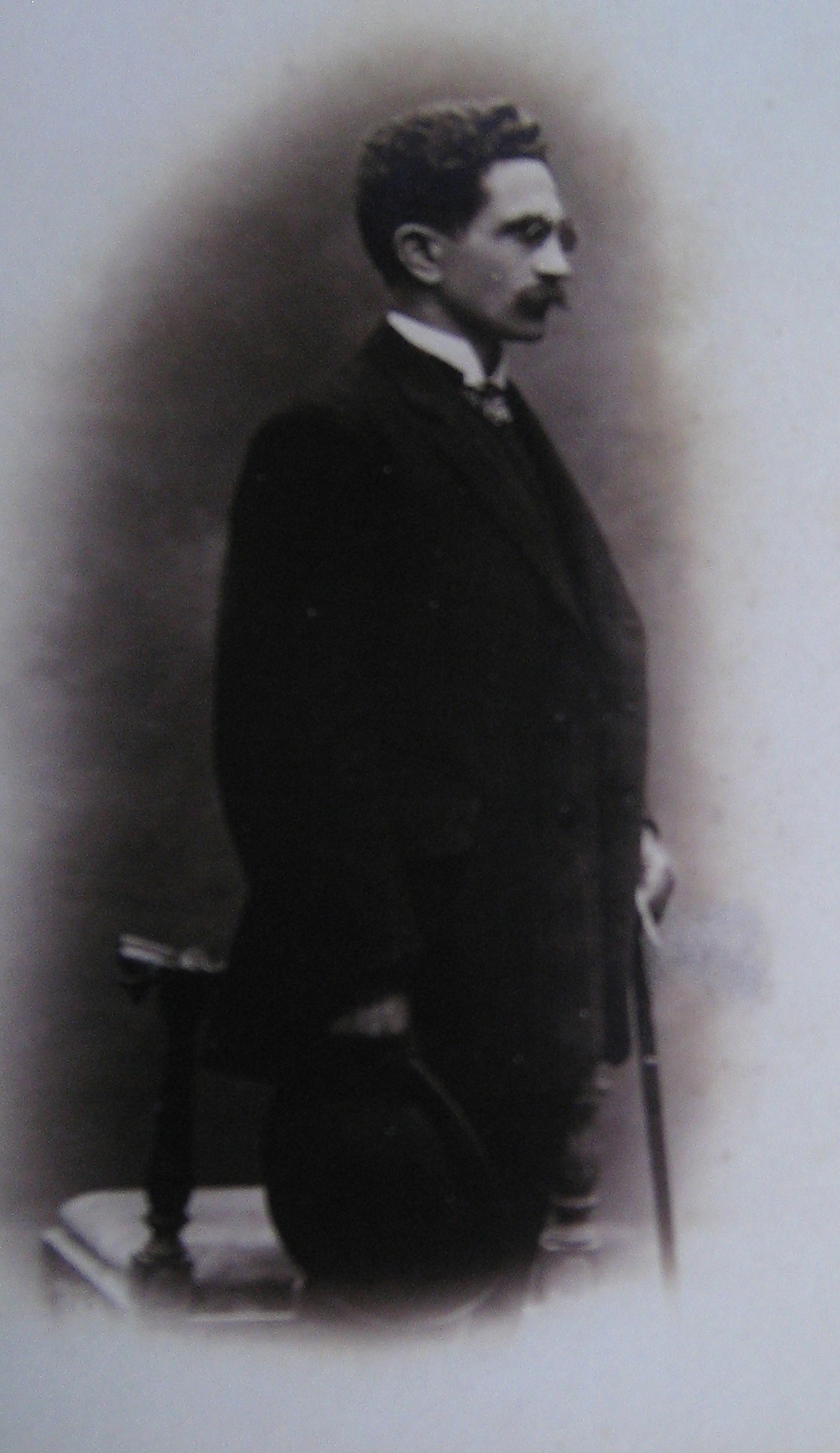 Reshaped Photograph of Narcís VerdaguerOccitan : Fotografia reducha de Narcís Verdaguer